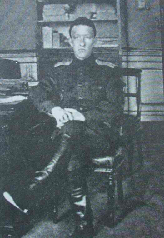 Alexander Blok (1917) in Zimny Palace